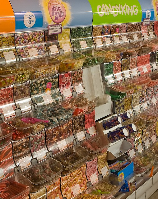 Interior of Woolworths, Leigh Road, Eastleigh